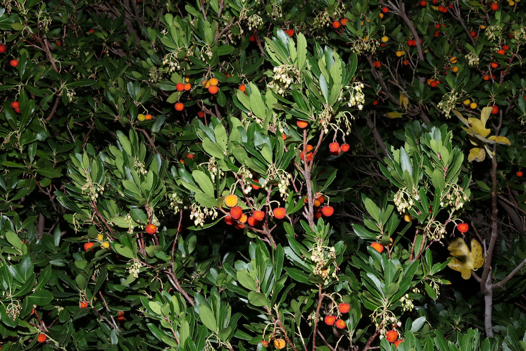 Familia: Ericaceae Juss. Subfamilia: Arbutoideae Nyman Species: Arbutus unedo L. Original publication details: Sp. Pl.: 395 (1753). Synonyms: Arbutus cassinifolia Steud.; Arbutus crispa Hoffmanns.; Arbutus integrifolia Sims; Arbutus intermedia Heldr. ex Nyman; Arbutus nothocomaros Heldr. ex Nyman; Arbutus pavarii Pamp.; Arbutus procumbens Kluk ex Besser; Arbutus salicifolia (Lodd.) Cels ex Hoffmanns.; Arbutus serratifolia Salisb.; Arbutus turbinata Pers. ex Rchb.; Arbutus vulgaris Bubani Common names: Corbezzolo (IT); Strawberry-tree (EN). Location: Valle Arenon (Municipality of Varazze, SV, LIG, IT). Elevation: 185 m (605 ft). Date: November 17, 2019. Status: native. Chorotype: Mediterranean-Atlantic. Note: the Strawberry-tree (Arbutus unedo L.) is a native species of the Mediterranean coasts of north-western Africa, of Europe and of Turkey and of the Atlantic coasts from Morocco to north-western France (Brittany). It is also native to some areas of Lebanon, Libya (Cyrenaica), to the Bulgarian and Turkish coasts of the Black Sea and to western Ireland. In Italy it is very frequent in all coastal areas from Liguria to Marche, while it is present, in a very fragmented way, in the Po basin, in the Adige basin and in Veneto, where it grows in few hilly areas that have sub-Mediterranean climate (eg Lake Garda, Euganean Hills, Romagna hills). In Liguria Arbutus unedo L. is widespread and very frequent in the coastal strip and in the sublittoral zone, it is rare in interland and absent in the valleys of the Po side.